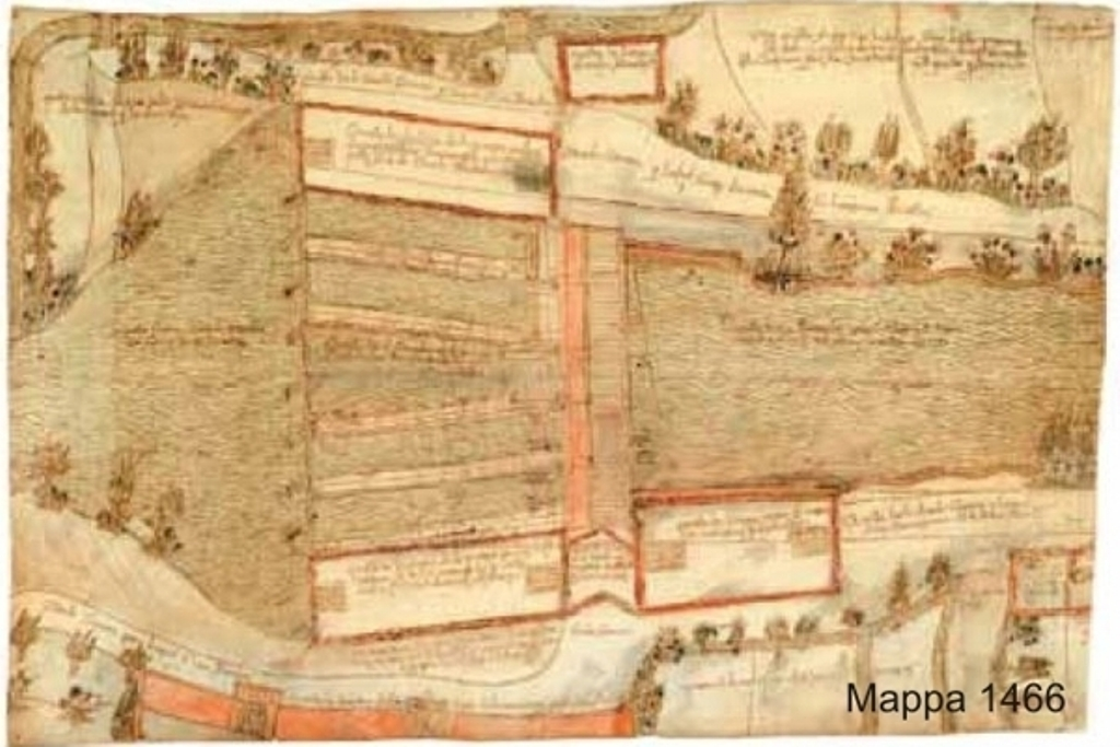 Map of Pontemanco